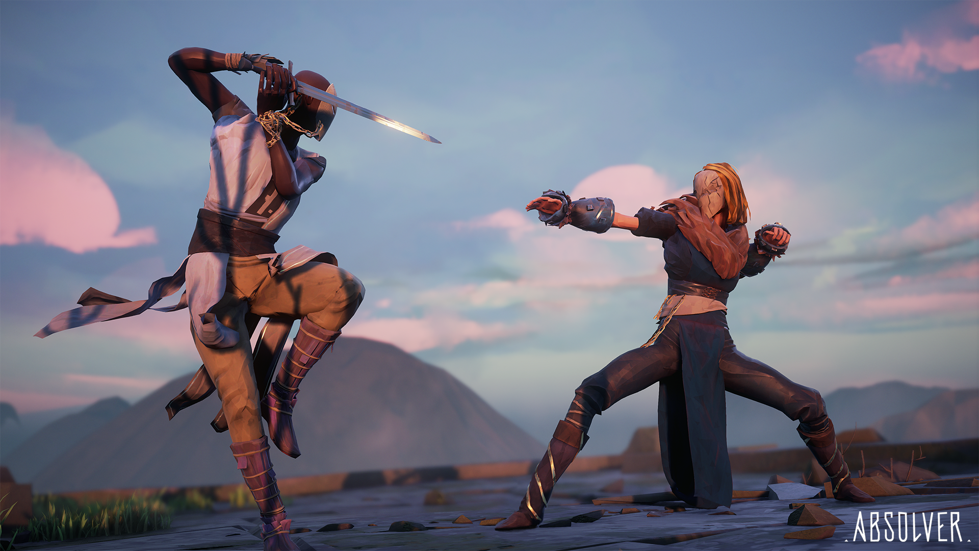 Absolver screenshot of gameplay